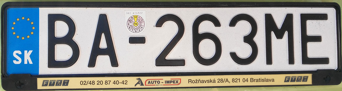 Slovakian license plate between 2004-2006.